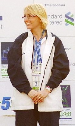 Mumbai Marathon 2008 - Brand Ambassadors: Gabriela Szabo.